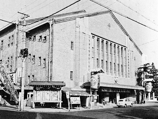 Shinbashi Enbujo circa 1960